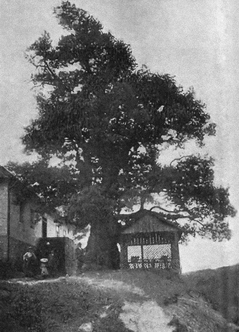 Oak of Jan Žižka located near stronghold Lichnice, Třemošnice, Czech Republic. Historical photo taken by Jan Vilím.